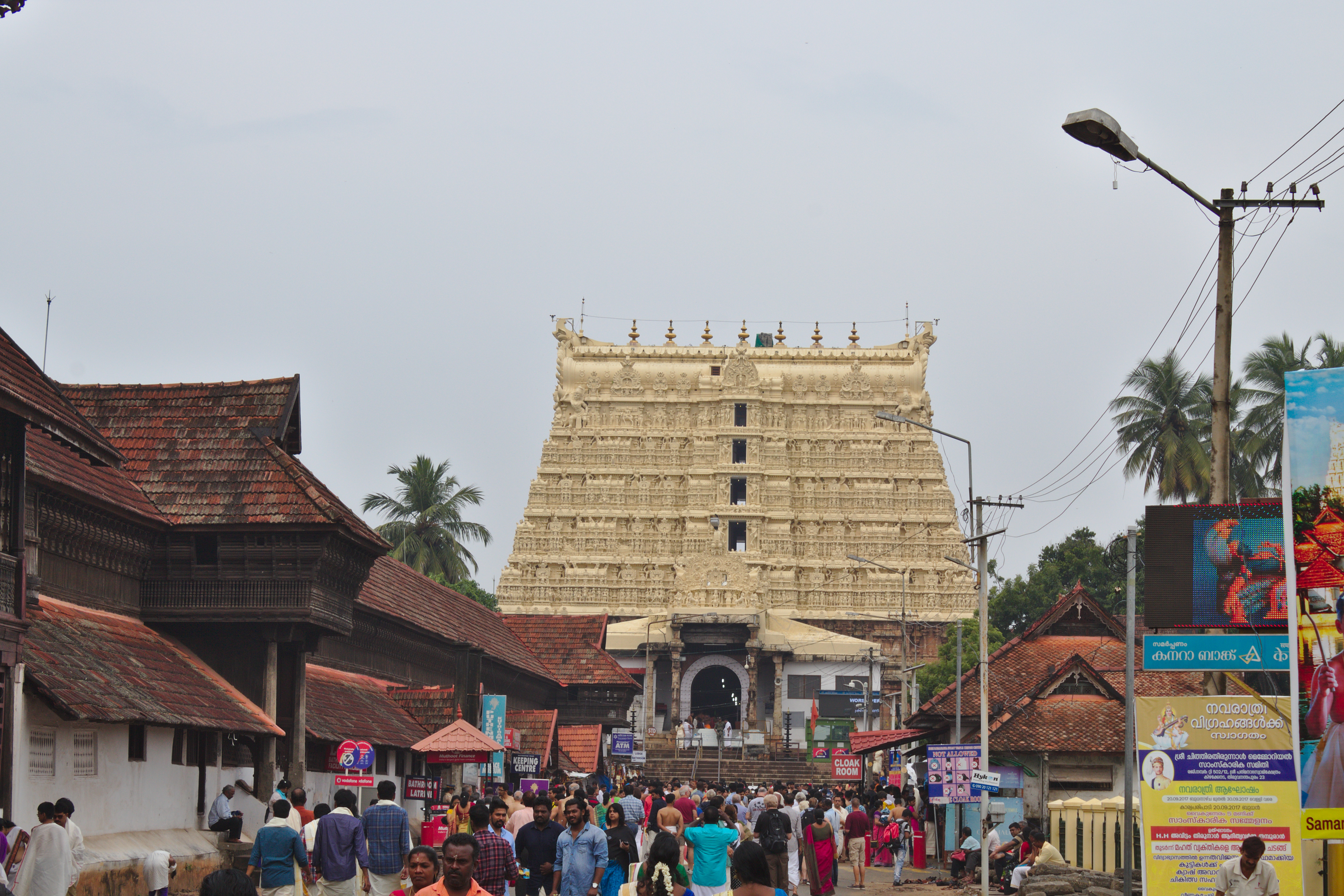 Padmanabhaswamy Temple Gopuram, Thiruvananthapuram, Kerala, India Template:Ma